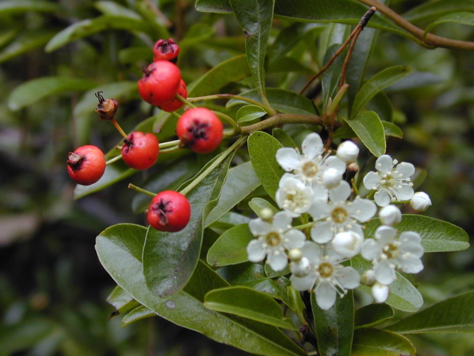 Pyracantha angustifolia (flowers and fruit). Location: Maui, Polipoli